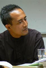 Agus R. Sarjono became the first Indonesian writer who had the honor of living and writing at the house of the great German literary writer, literary Nobel laureate, Heinrich Boll, at the invitation of Heinrich Boll Stiftung. Agus R. Sarjono was born in Bandung on July 27, 1962.